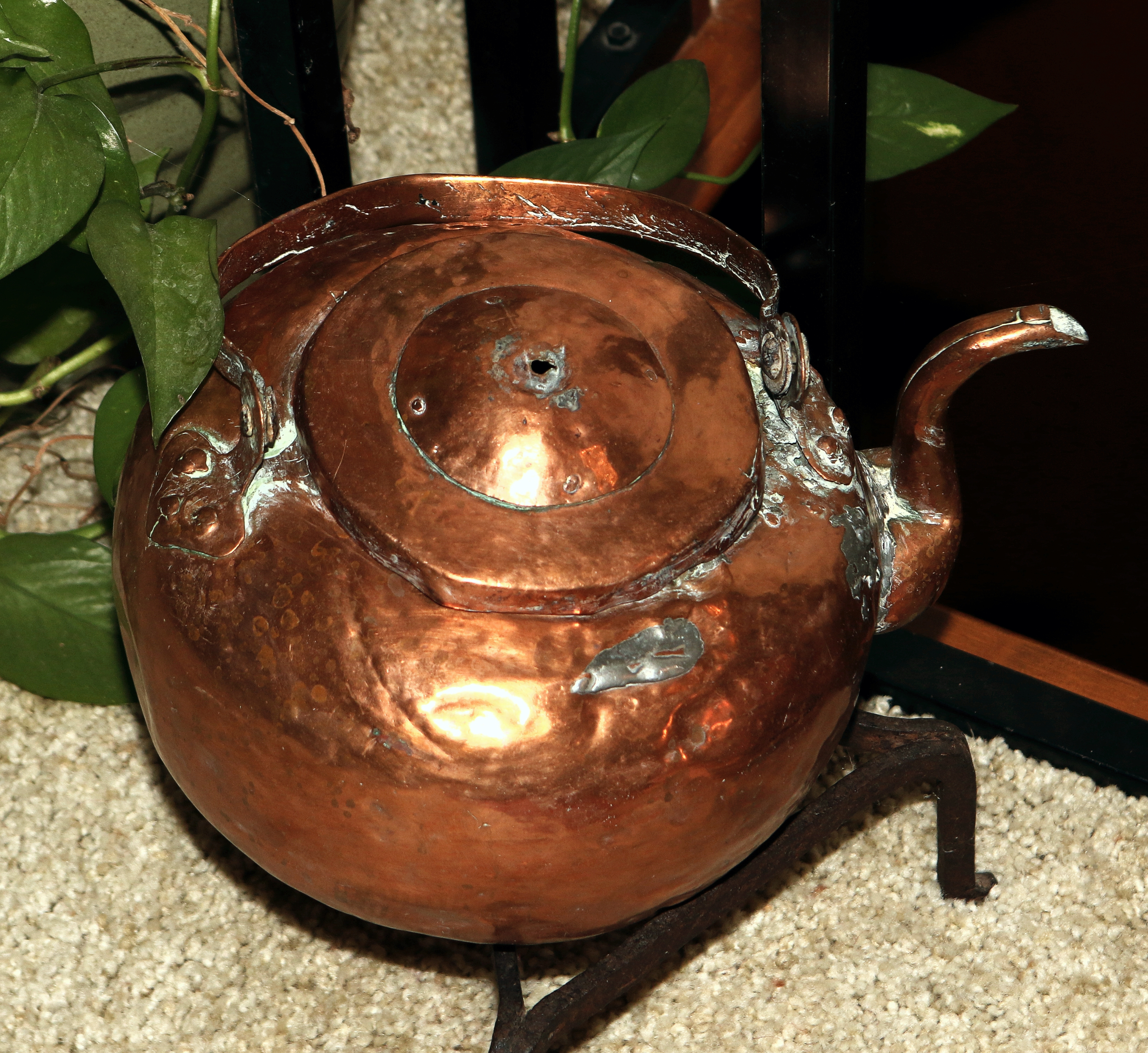 18th century copper kettle from Norway.